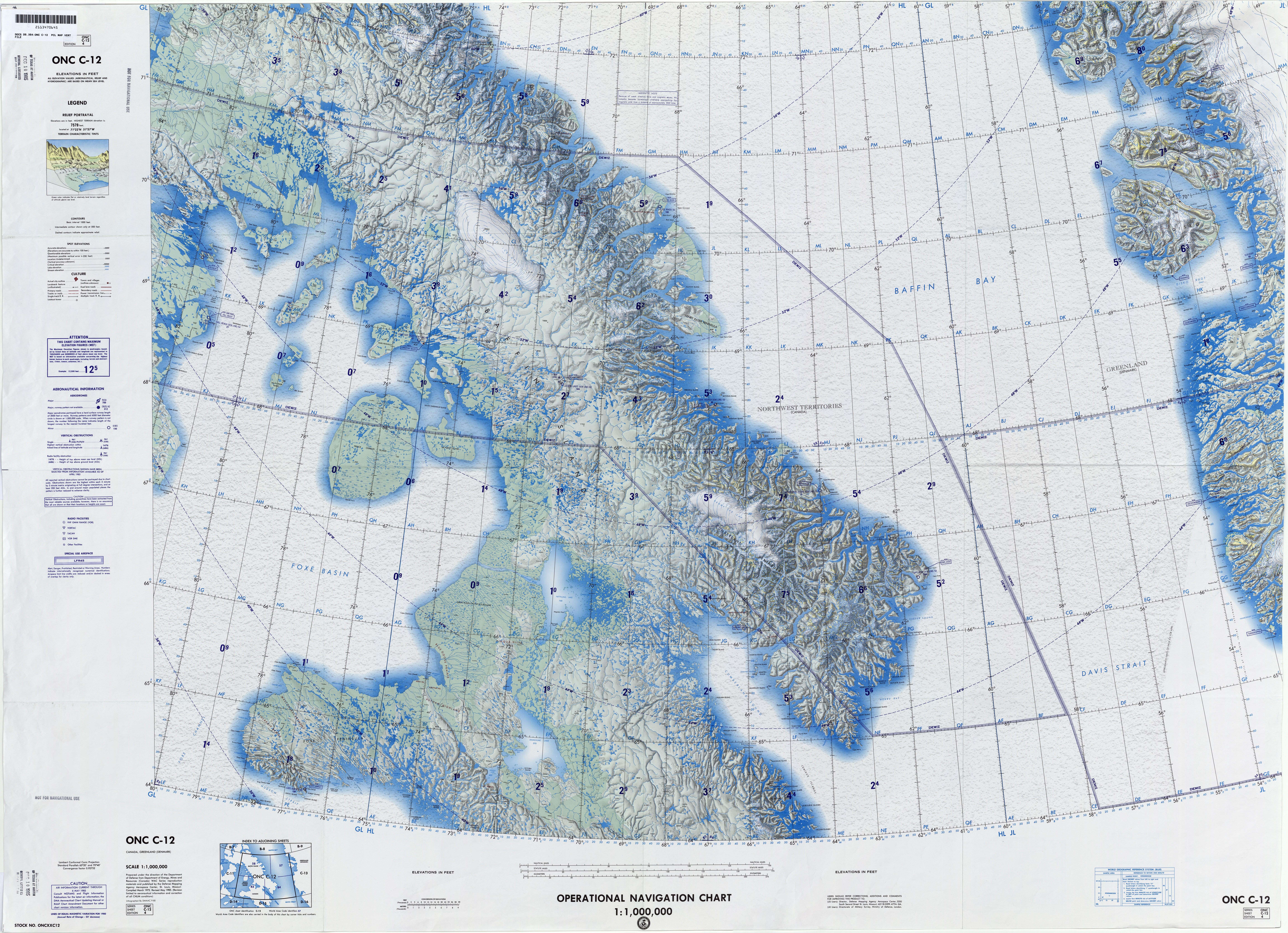 1:1,000,000 scale Operational Navigation Chart, Sheet C-12, 4th edition. Covers Greenland (Denmark). Lambert Conformal Conic Projection. Standard Parallels 65 20N and 70 40N. Center longitude 67W.